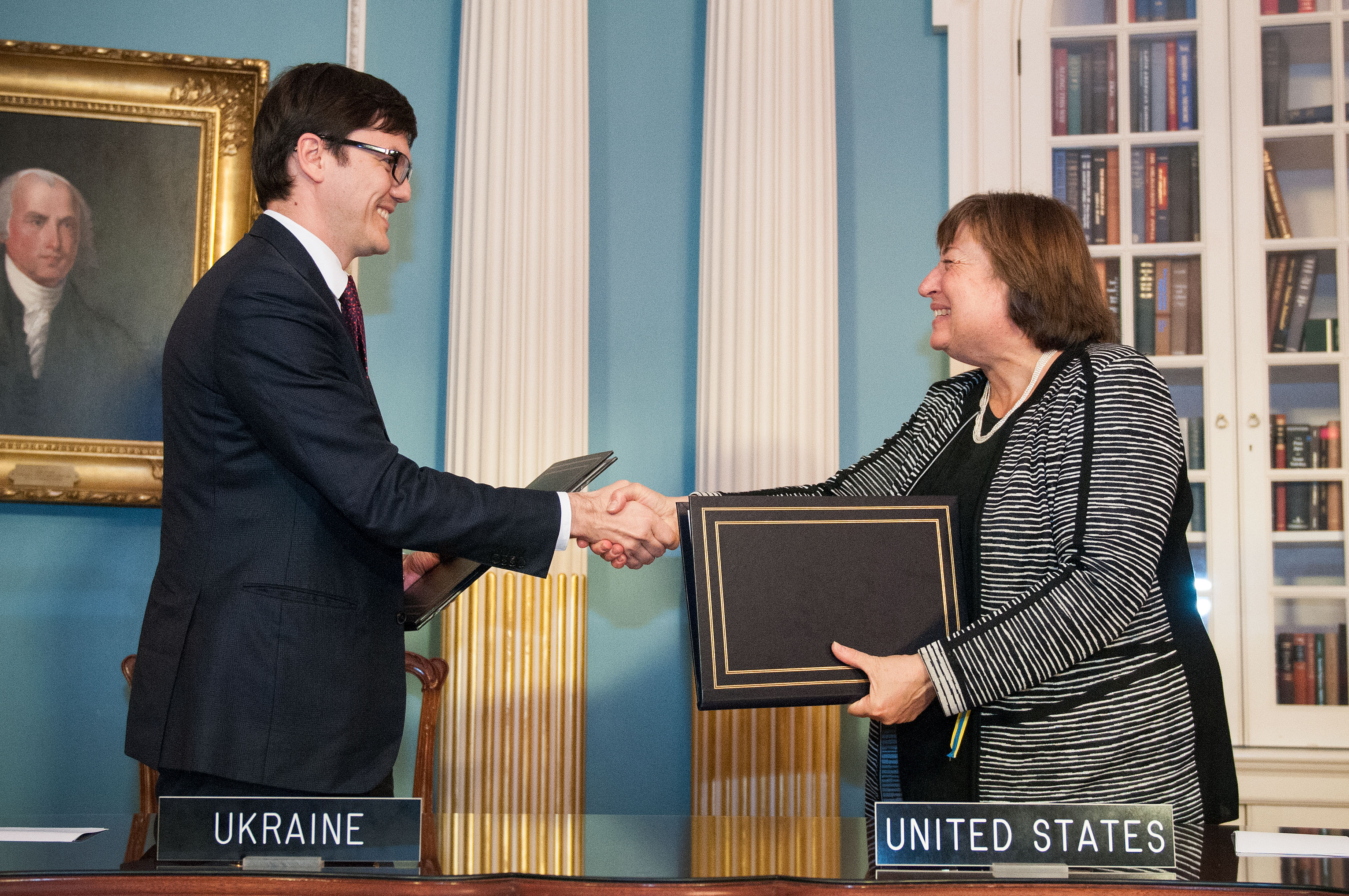 Under Secretary Novelli and Ukrainian Infrastructure Minister Pyvovarsky Shake Hands After Signing the U.S.-Ukraine Open Skies Agreement